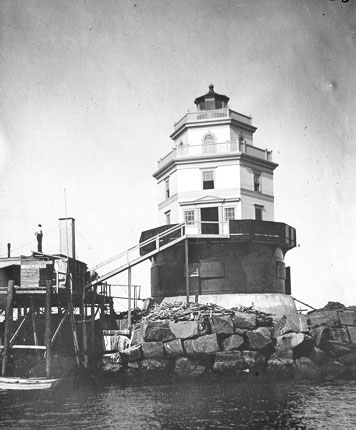 Harbor of Refuge Light. A photo of the first tower that was later dismantled in 1925 Photo by the U.S. Army Corps of Engineers